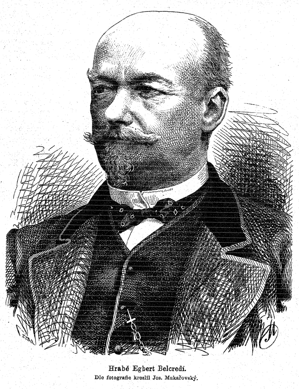 Portrait of Egbert Belcredi (1816 - 1894), Czech politician